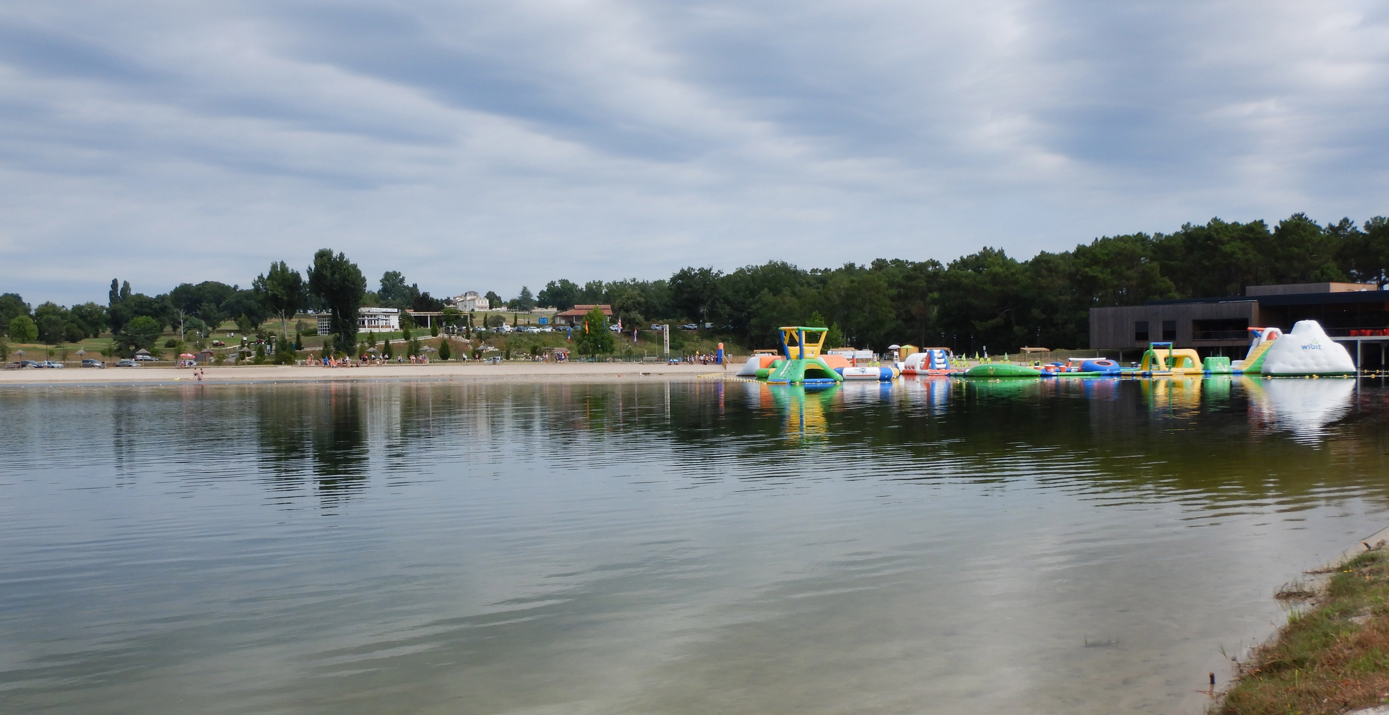 Clarens lake, in Lot-et-garonne department, in south-west of France (artificial lake)